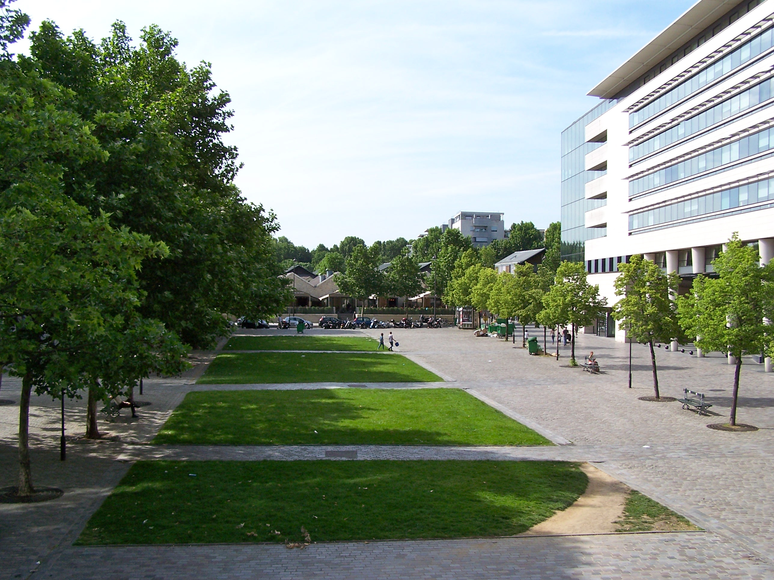 View of the Place des Vins-de-France in Paris